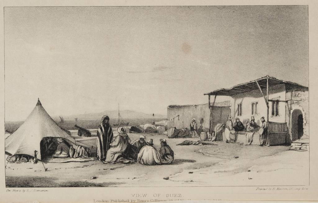 A tent and several rough buildings near the edge of the Gulf of Suez.